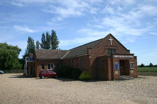 Great Barton Free Church, a former primary school at Conyers Green, Suffolk